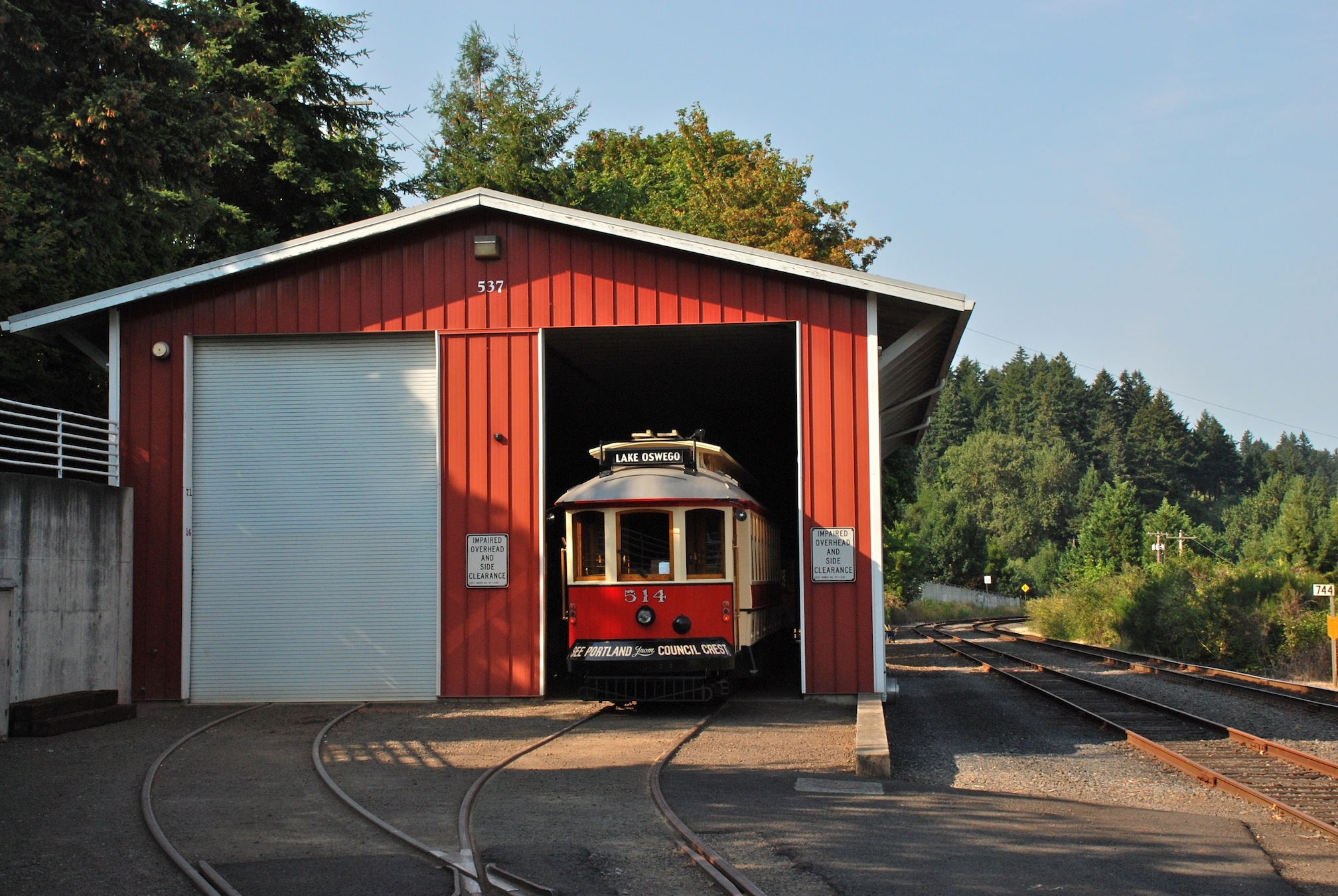 The carbarn for the Willamette Shore Trolley line, in Lake Oswego, Oregon, with car 514 pulling in at the end of a day of operation. The facility was constructed in 1998.